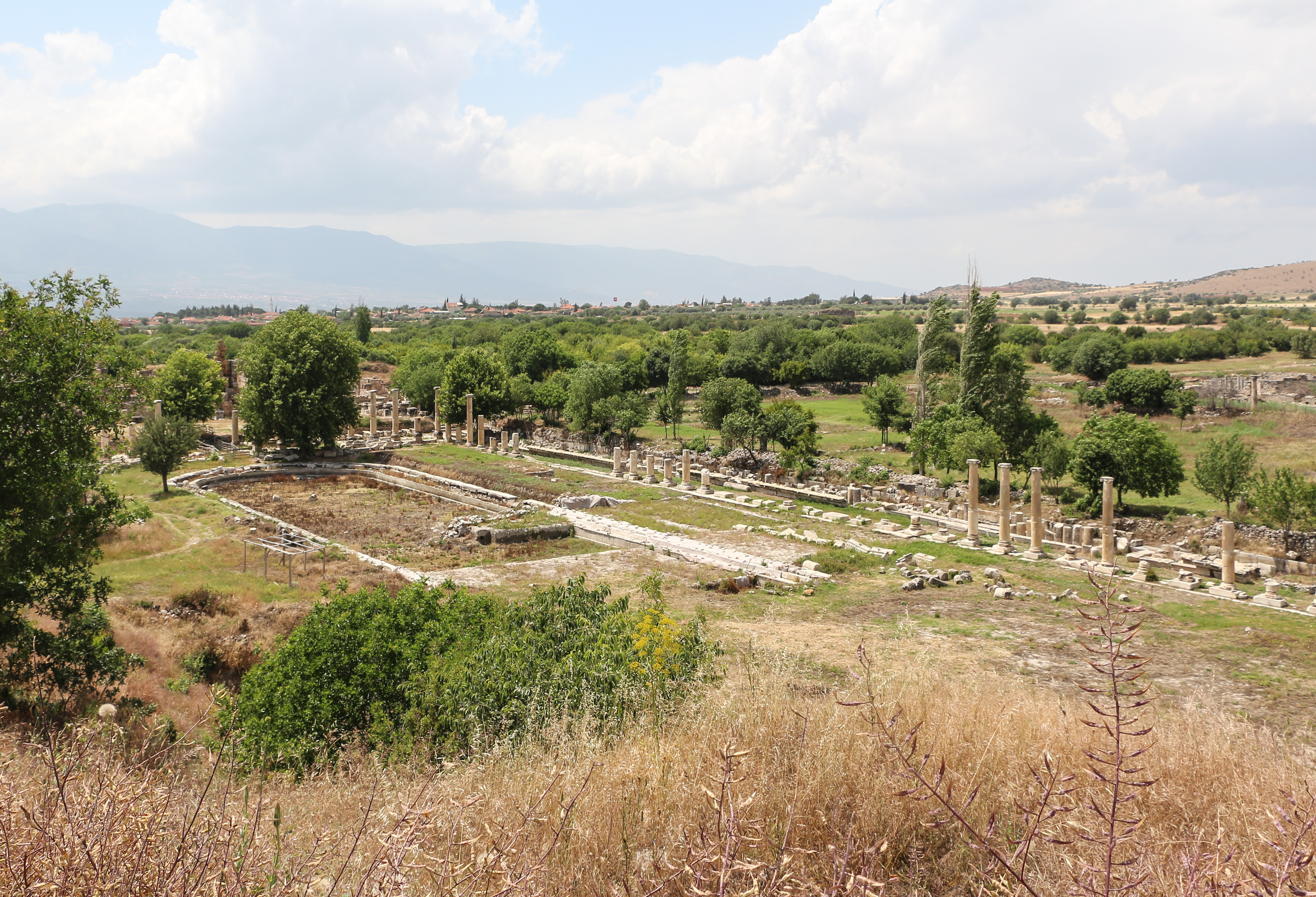 Portico of Tiberius, Aphrodisias, Turkey